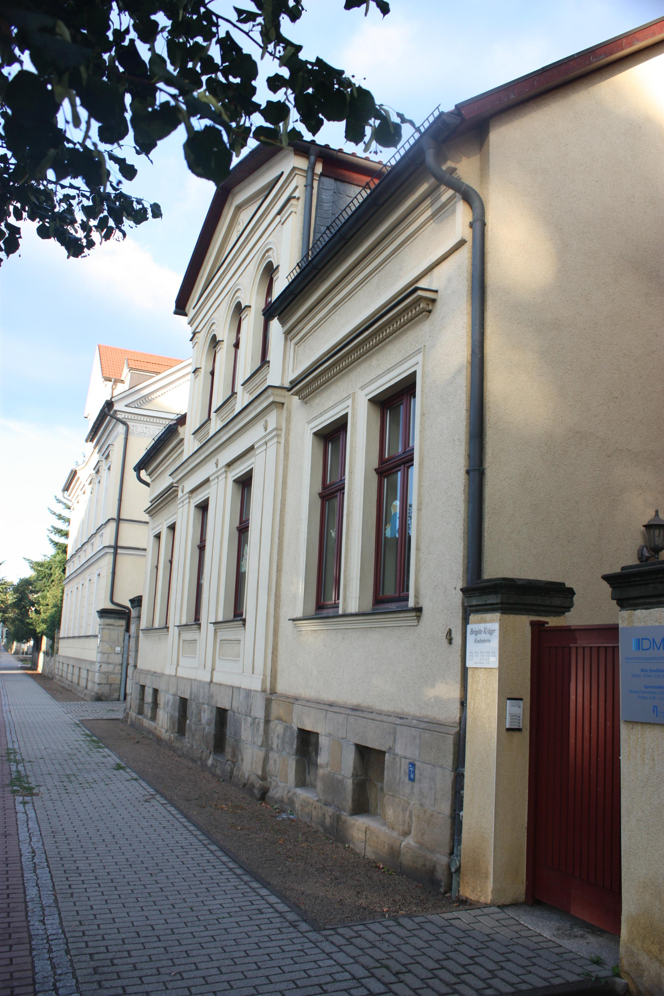 This is a photograph of an architectural monument.It is on the list of cultural monuments of Quedlinburg Harzweg